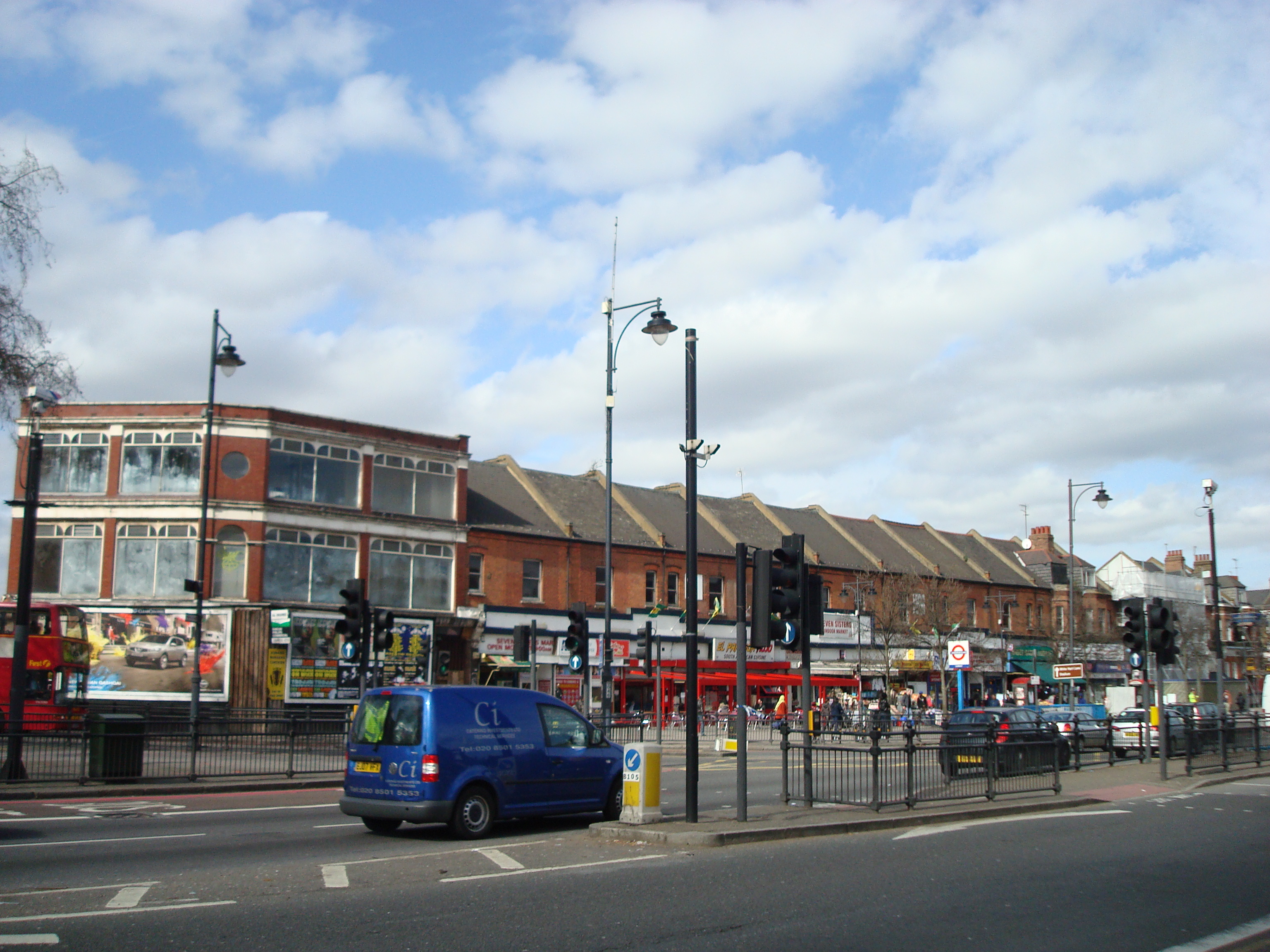 Tottenham High Road, Seven Sisters, London N15